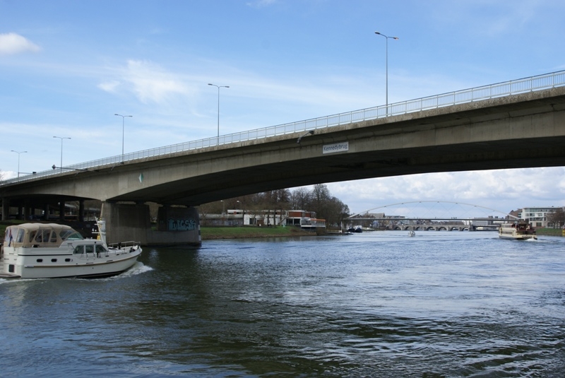 John F. Kennedy bridge, Maastricht, The Netherlands